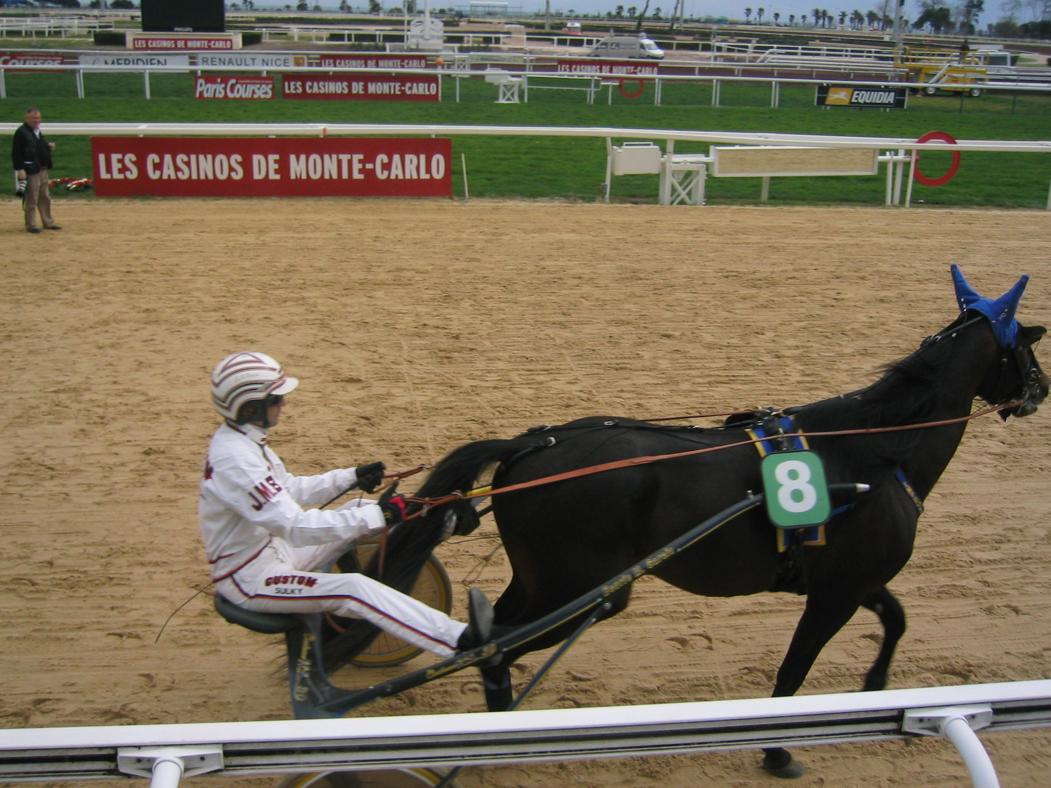 Improve As and Jean-Michel Bazire, Critérium de vitesse de Cagnes-sur-Mer 2008.